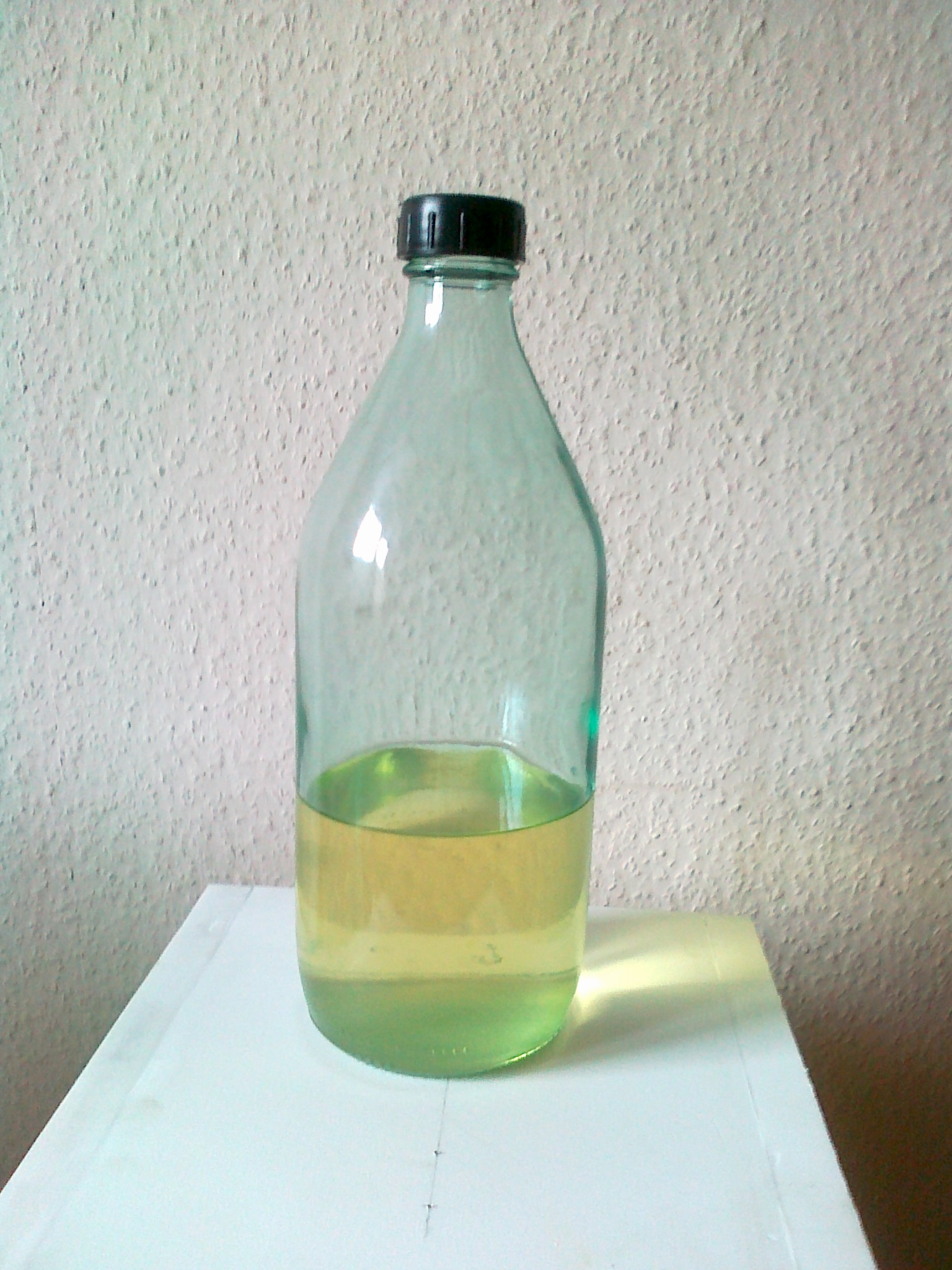 Collodion (medical) - 4%